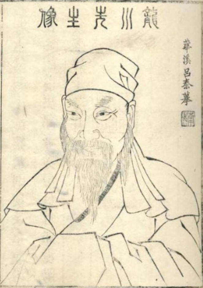 Chen Laing, zhuangyuan of the Song Dynasty.